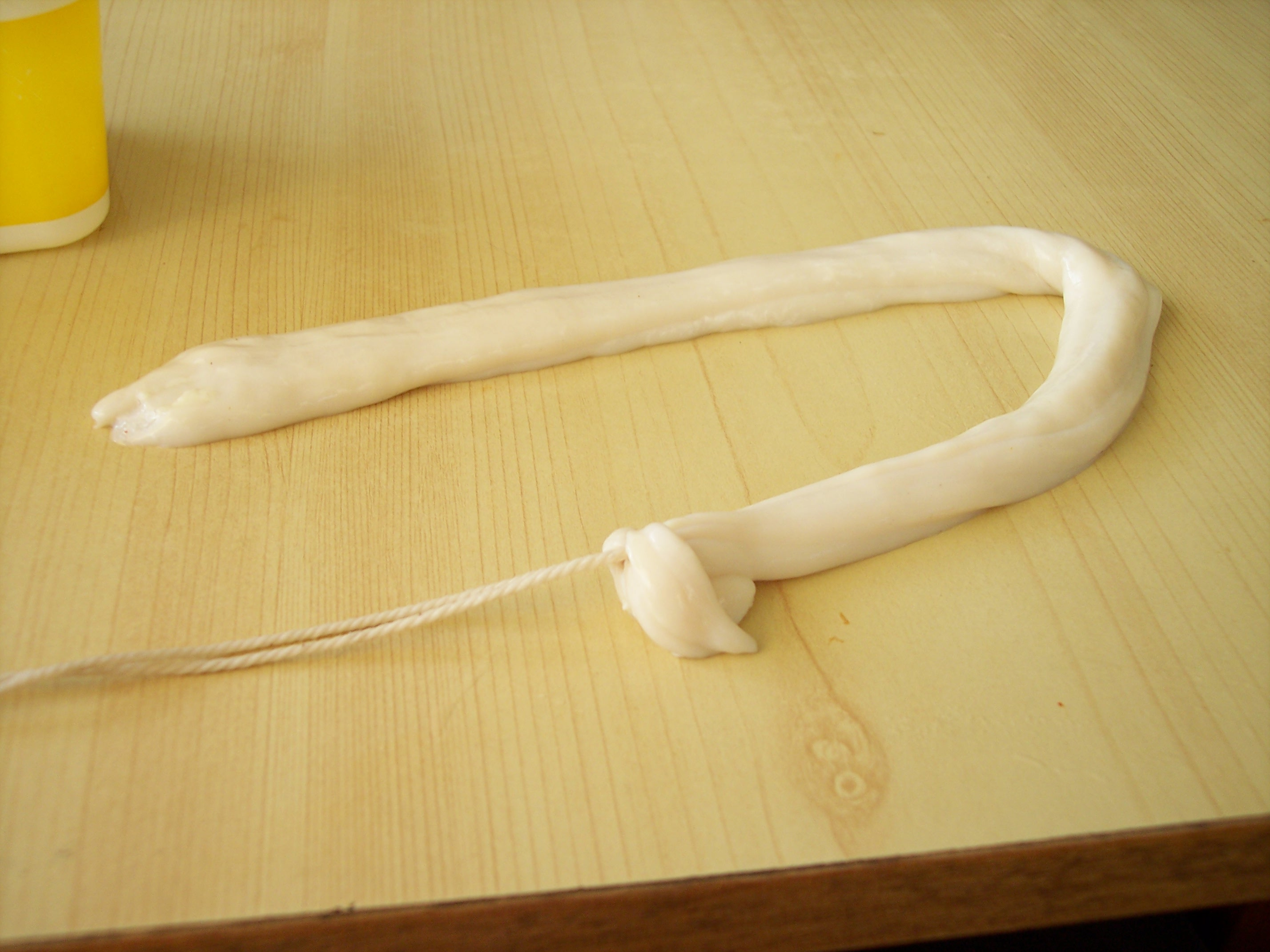 Intestine for sausage making in Hungary